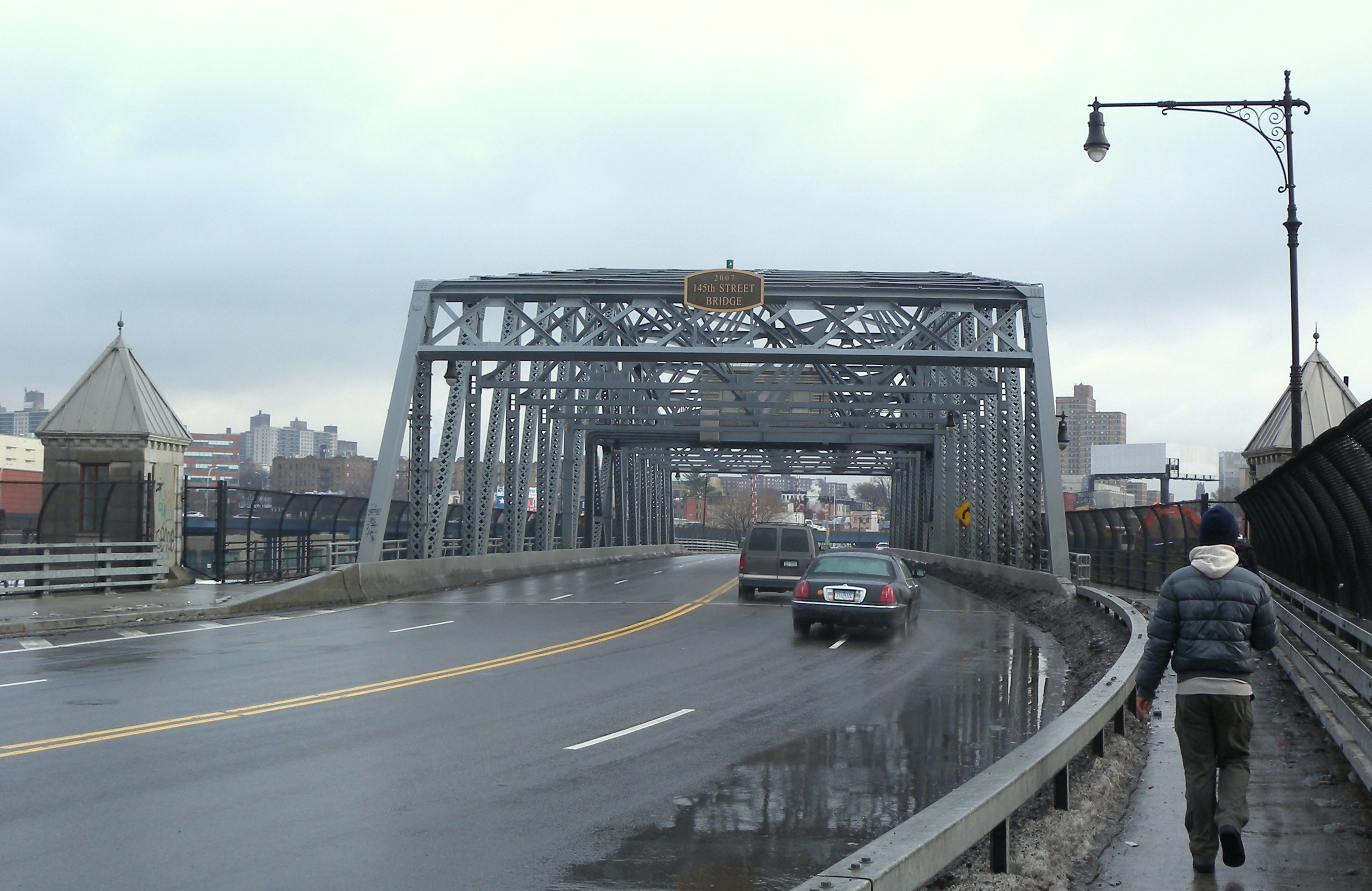 Looking east at 145th Street Bridge from south walkway approach on a rainy midday.